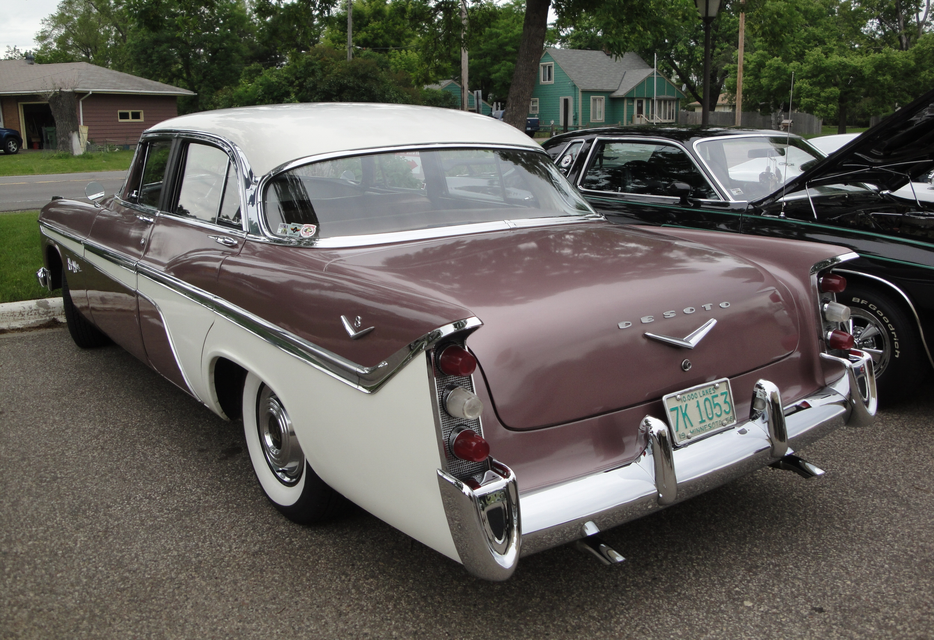 W.P.C. Restorers Club 10,000 Lakes Region Car Show June 12, 2011 Wagner's Drive in